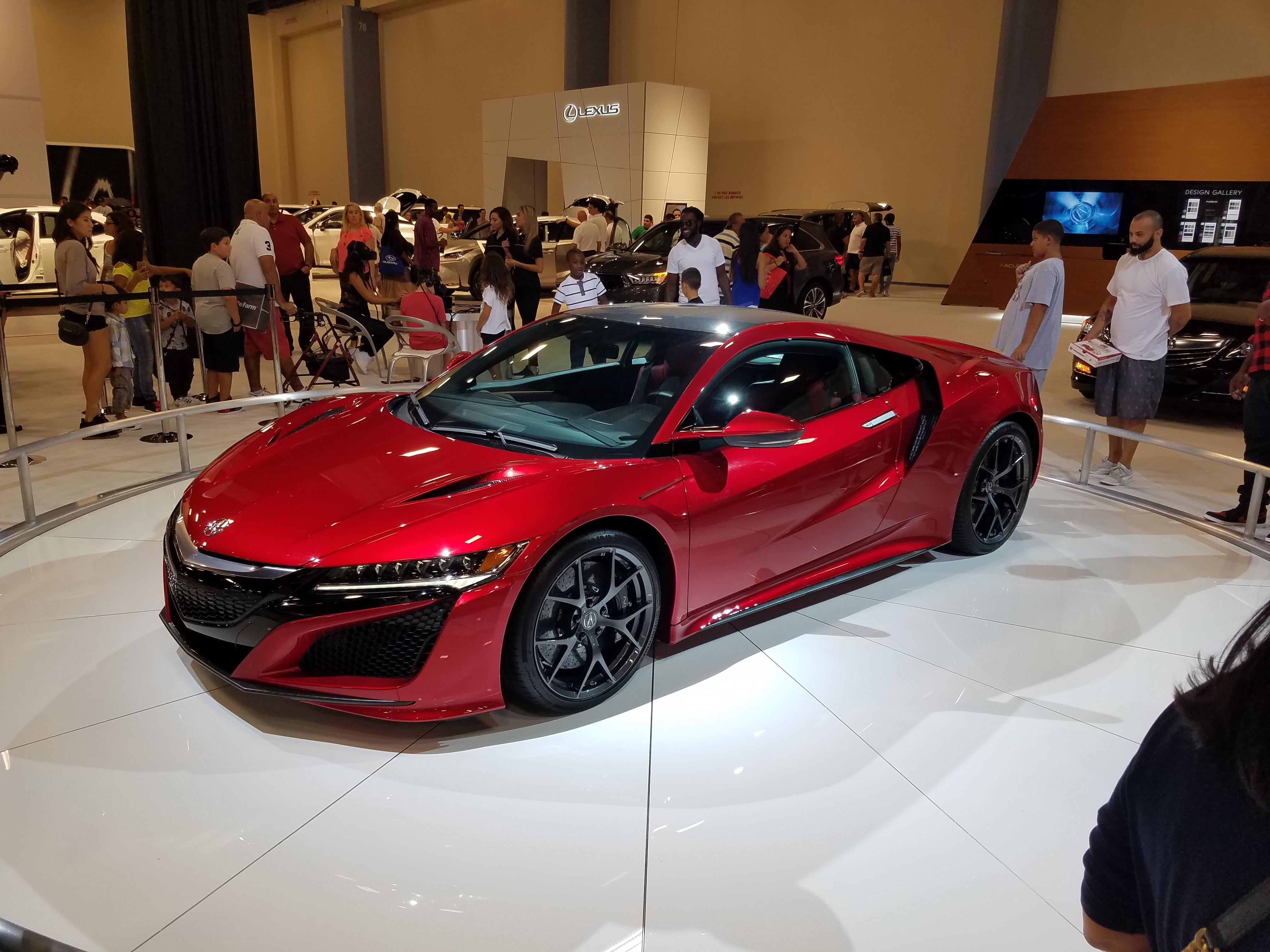 Acura NSX at the 2016 Miami International Auto Show